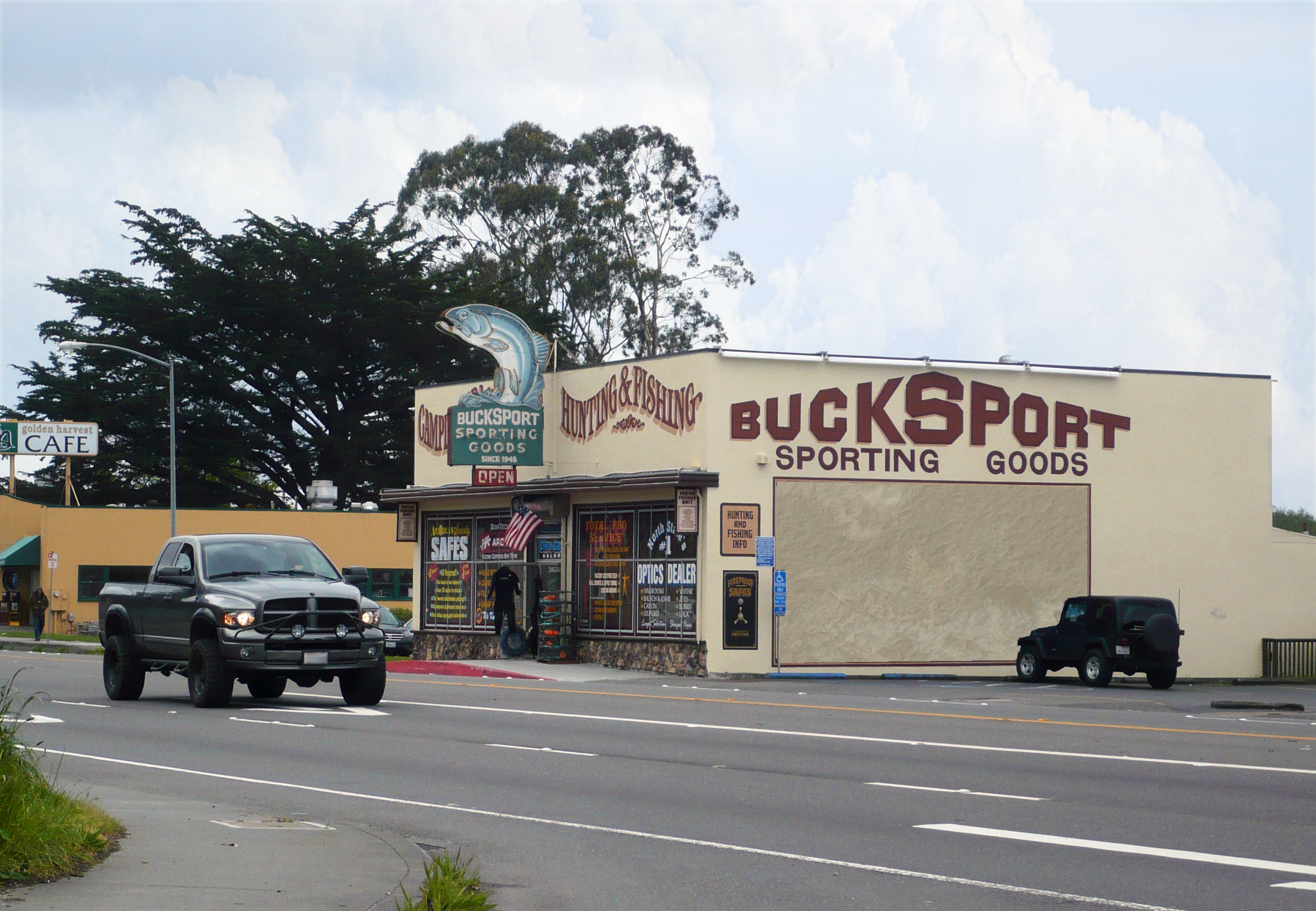 Bucksport Sporting Goods is one of the last remaining indicators that the town of Bucks Port ever was here, about 2.5 miles (4 km) southwest of downtown Eureka, on Humboldt Bay. Mural on side of building deliberately obscured due to no Freedom of Panorama in the United States.